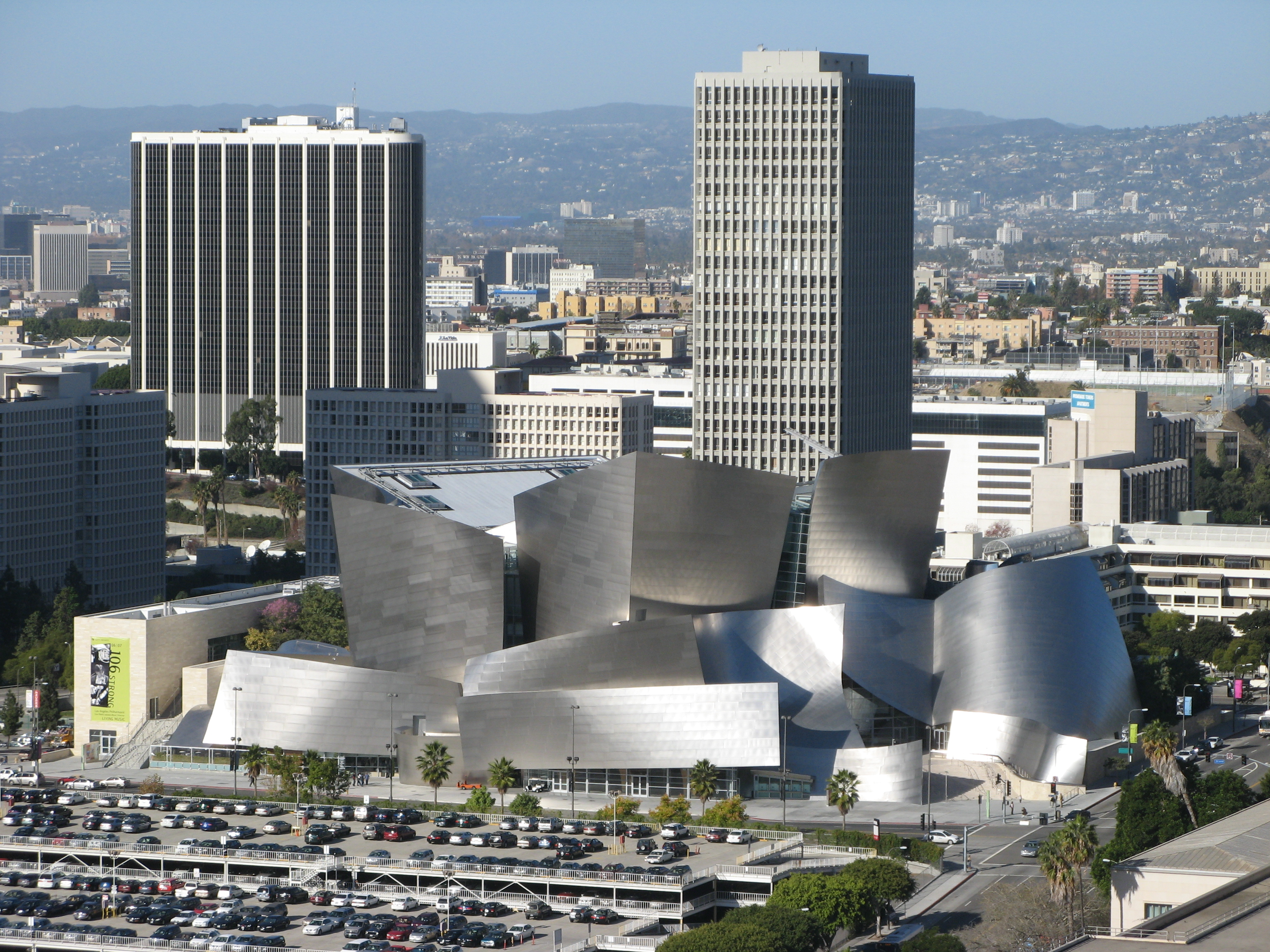 Walt Disney Concert Hall and surrounding area looking from Los Angeles City Hall